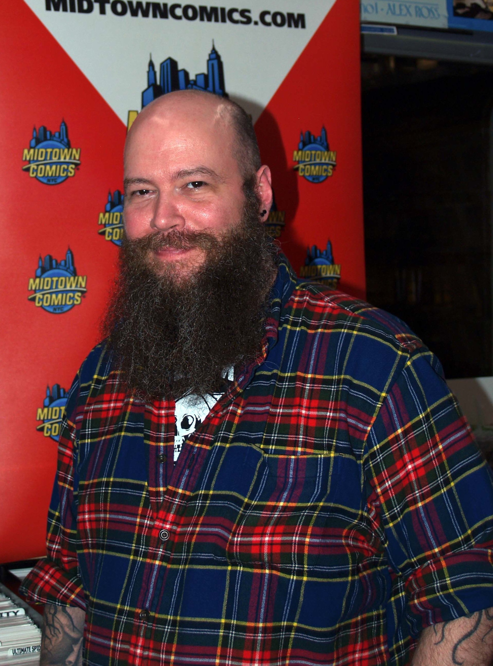 Comics writer Jason Aaron at a January 16, 2015 signing for Star Wars #1 at Midtown Comics Downtown in Manhattan. The publication of the book represented the first Star Wars comic to be published by Marvel Comics since 1987, following the acquisition of Marvel by Disney in 2009. This photo was created by Luigi Novi. It is not in the public domain, and use of this file outside of the licensing terms is a copyright violation.